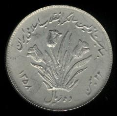 10 rials IRI-tulip design